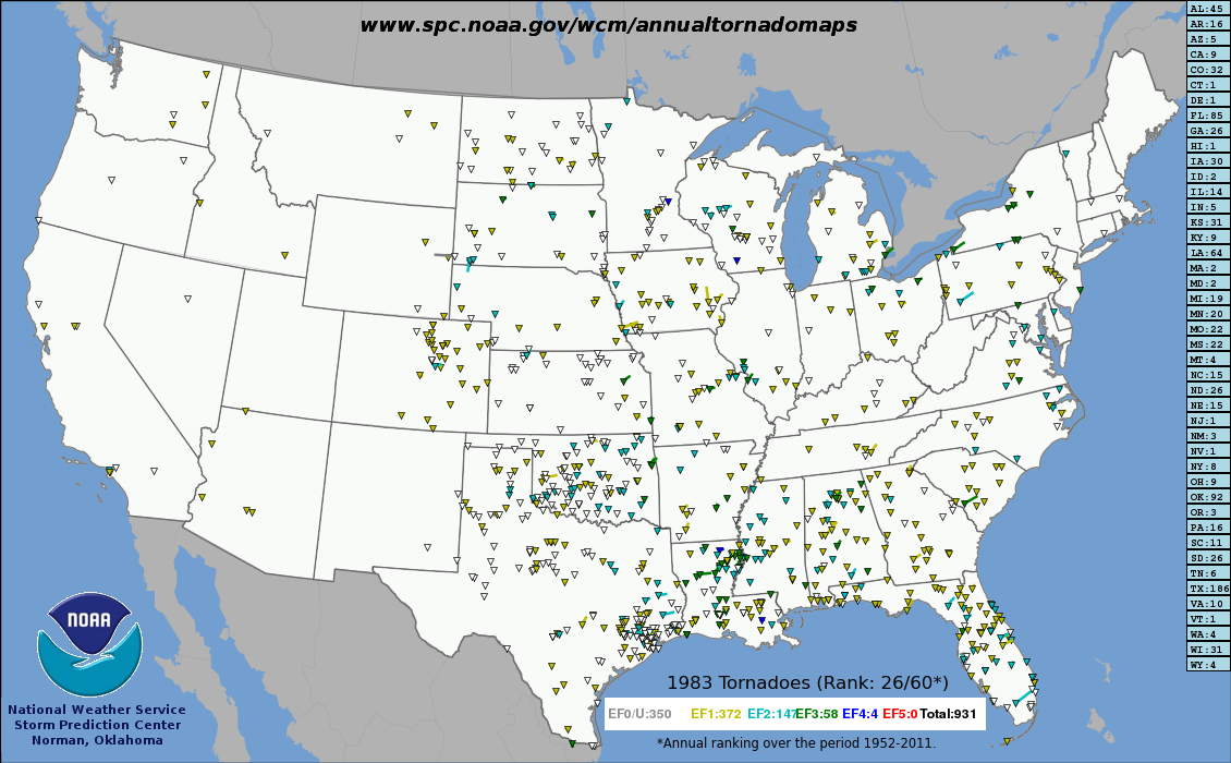 This map shows all recorded tornadoes in the United States in 1983 color-coded by rating